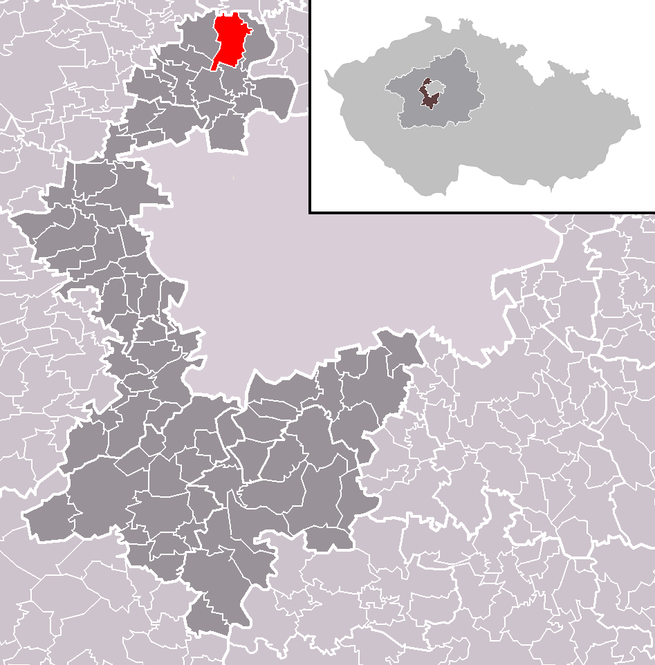 Location of Tursko municipality within Prague-West District and administrative area of Černošice as a Municipality with Extended Competence.